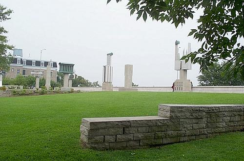 The Esplanade Ernest-Cormier, a sculpture garden in Montreal, with Melvin Charney's work Colonnes allégoriques. Photo by Montrealais.